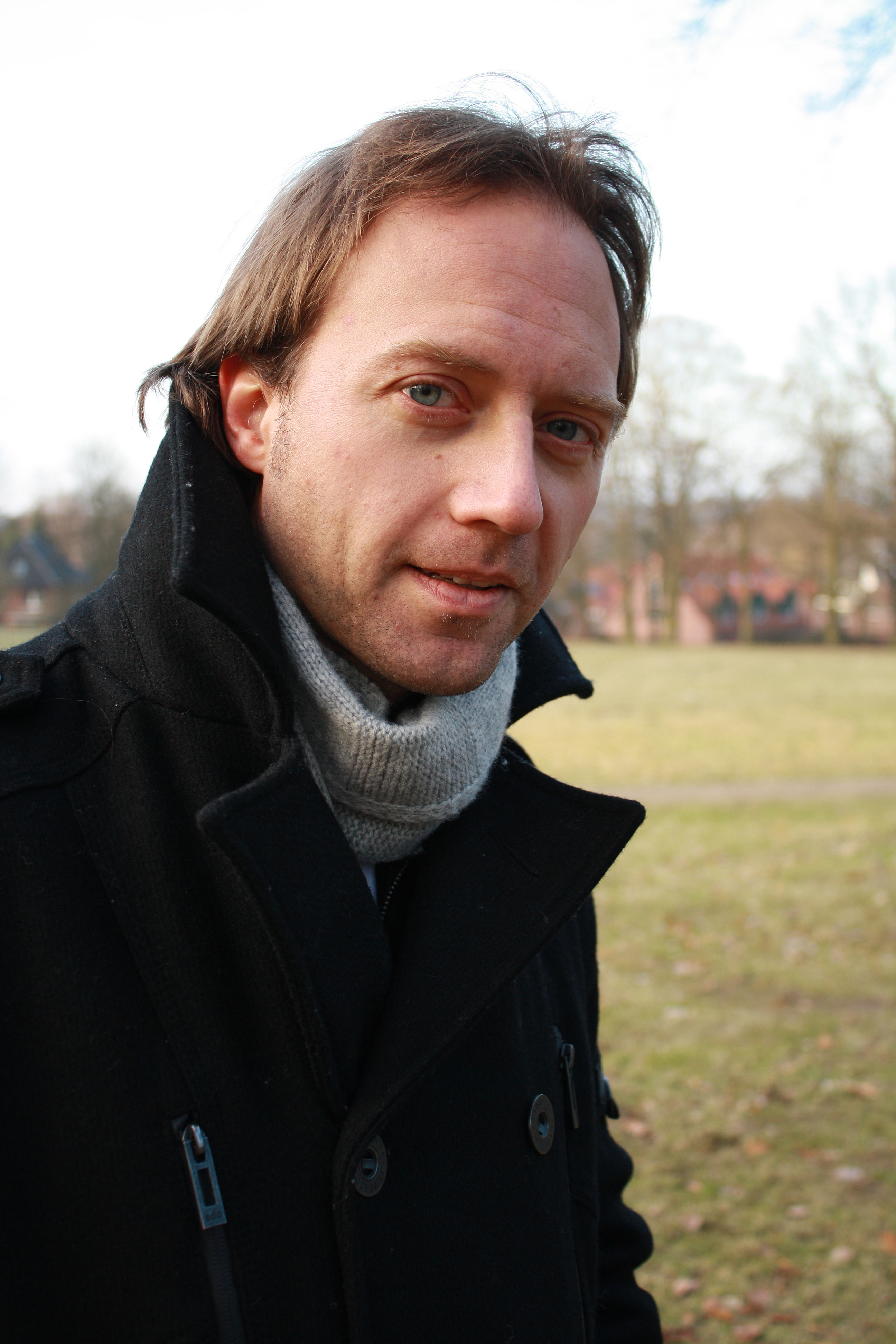 Dennis Kaupp, January 2009